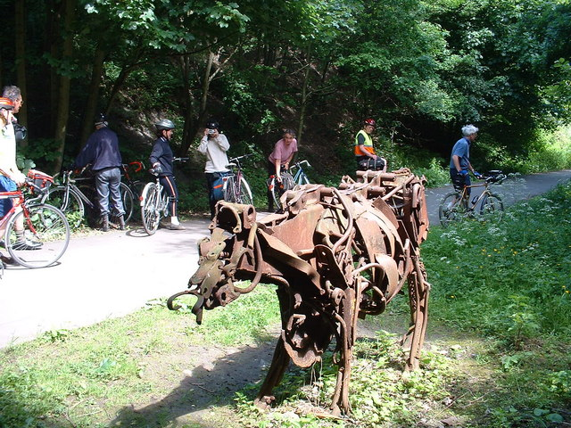 One of the Beamish shorthorns. Built by Sally Matthews, the Beamish Shorthorns, constructed from scrap metal contentedly graze by the side of the Consett and Sunderland railway path (part of the C2C cycle route).